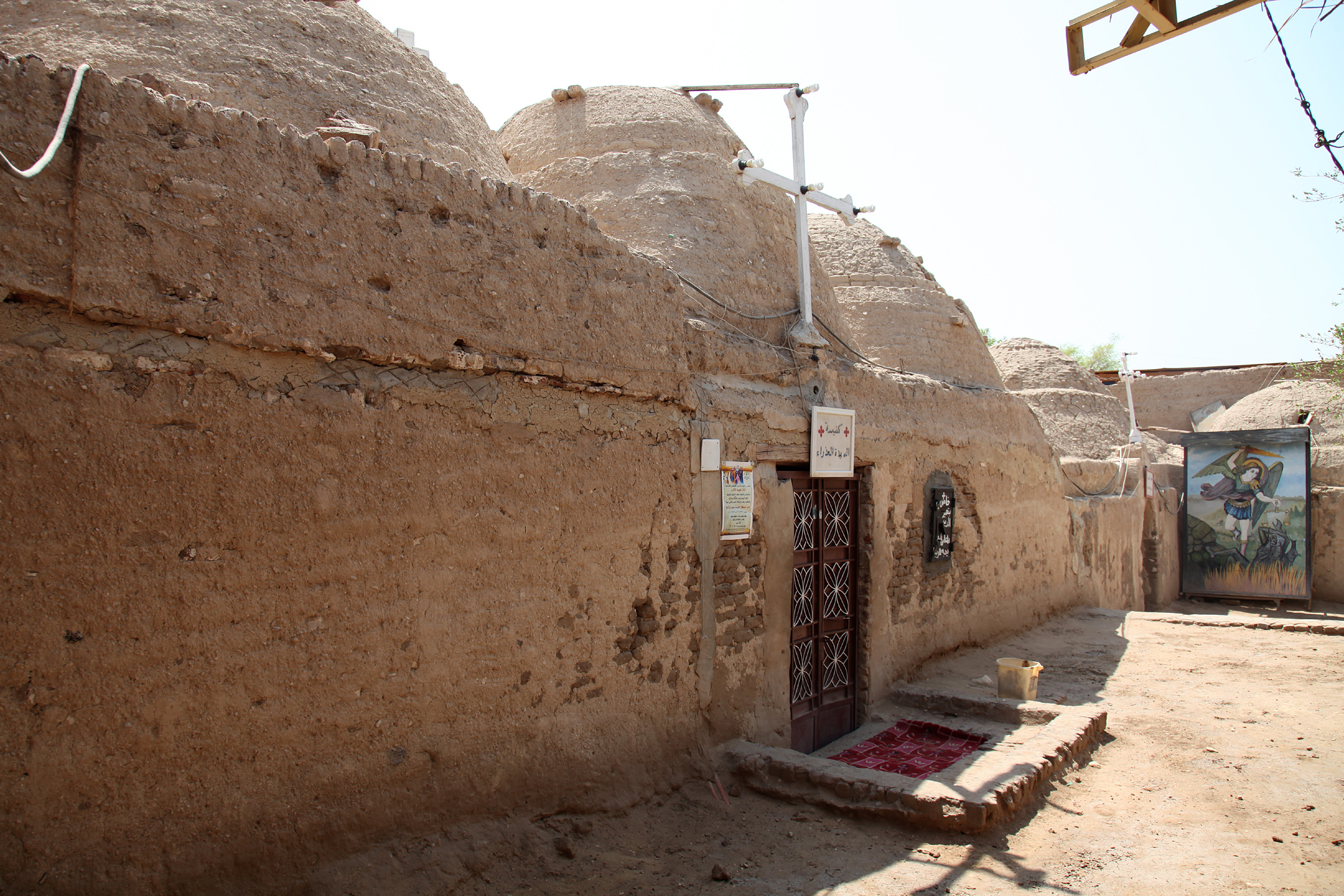 Church of the Holy Virging in the Monastery of the archangel Michael near Qamula, Egypt